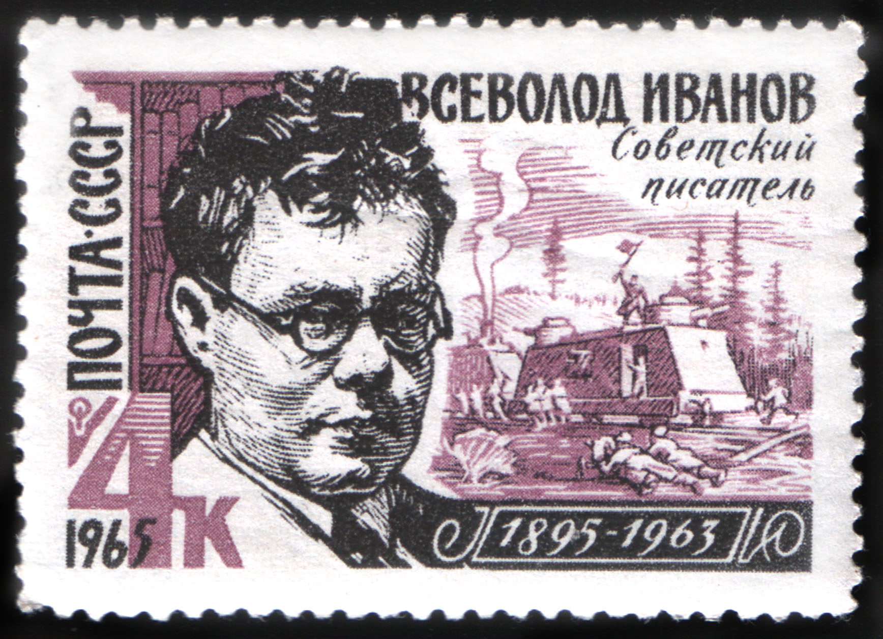 USSR stamp, V. V. Ivanov, 1965, 4 k.